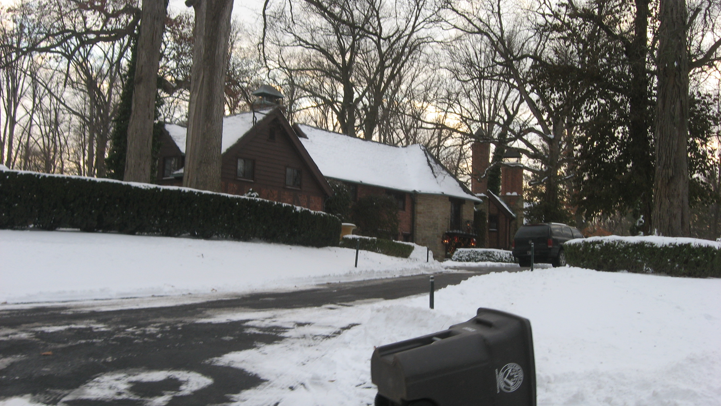 Driveway view of the Robert M. Feustel House, located at 4101 W. Taylor Street in Fort Wayne, Indiana, United States. Built in 1927, it is listed on the National Register of Historic Places.